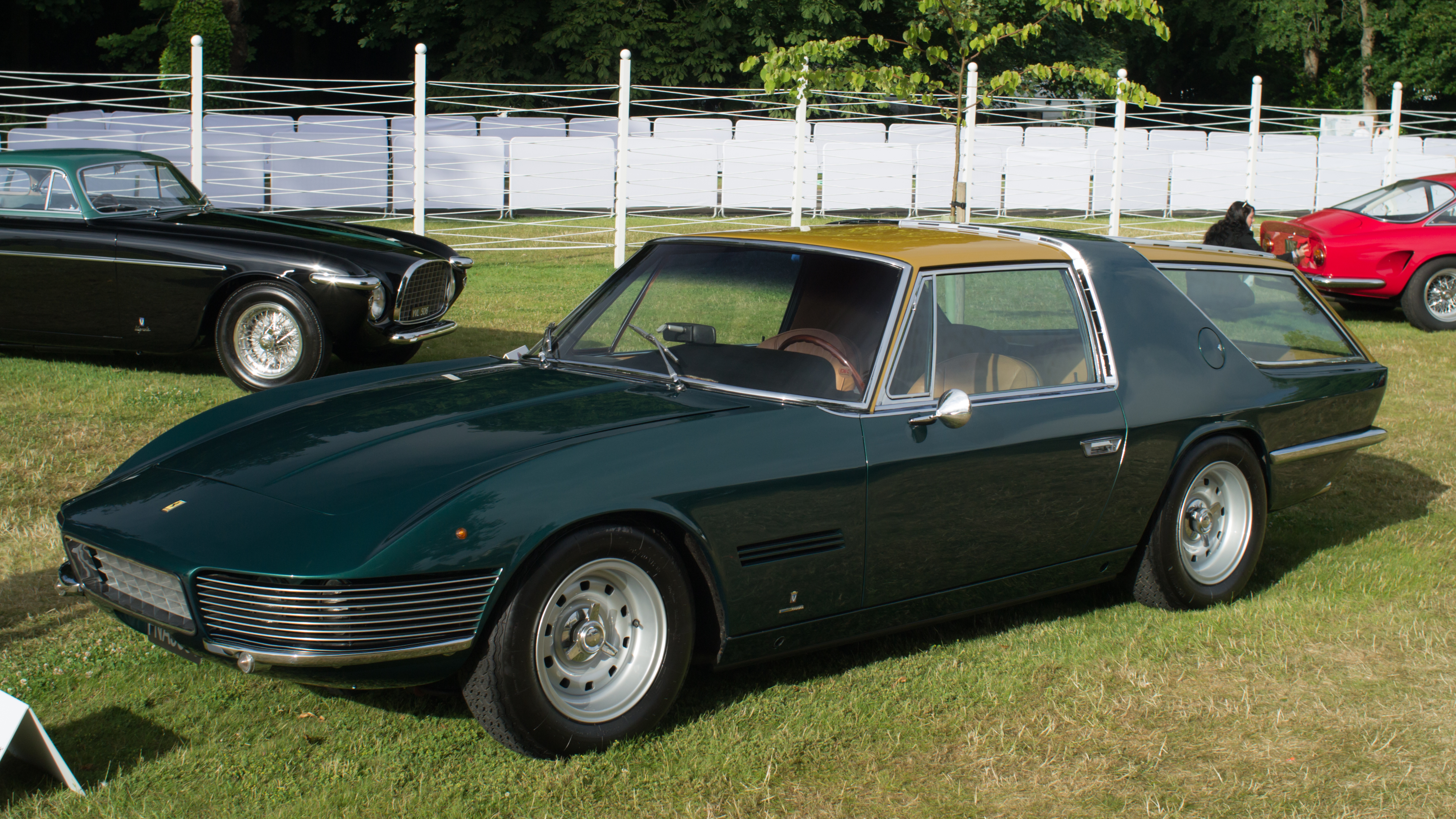 1965 Ferrari 330 GT Vignale 'Shooting Brake' at the Goodwood Festival of Speed 2015.